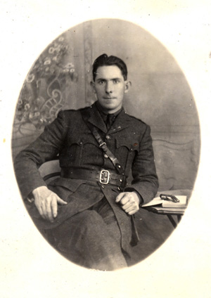 Sean MacEoin, studio pic